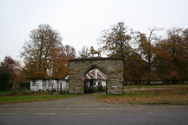 The Lion Gateway. A famous landmark - the Lion Gateway to Scrivelsby Park. Scrivelsby Court, home to the Dymoke family, hereditary champions of England since the 14th century, has been demolished